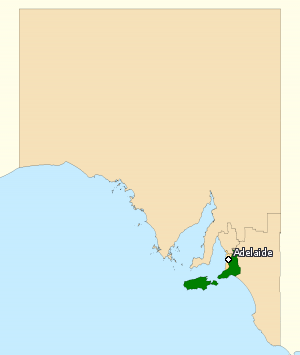 This image incorporates data that is: © Commonwealth of Australia (Australian Electoral Commission) 2009 Division of Mayo 2010